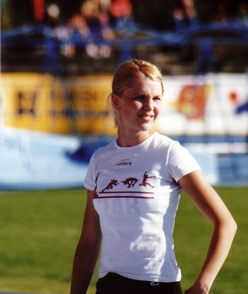 Finnish triple jumper Elina Torro (né Sorsa) competing at Lappeenranta, Finland, 13 July 2006.